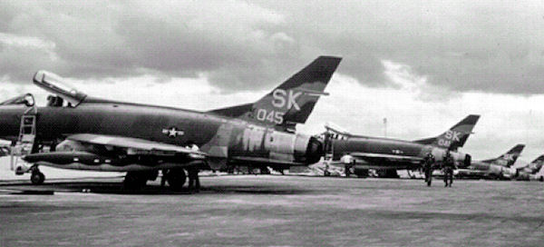 New Mexico Air National Guard F-100Cs at Tuy Hoa Air Base, South Vietnam.